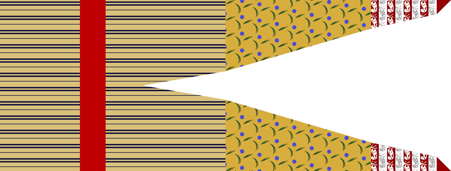 The banner representing the Princedom of Shapsugia of Circassia until its dissolution. Адыгэбзэ: Адыгэ Хэкум Шапсыгъэ Хэгъэгум и нып.